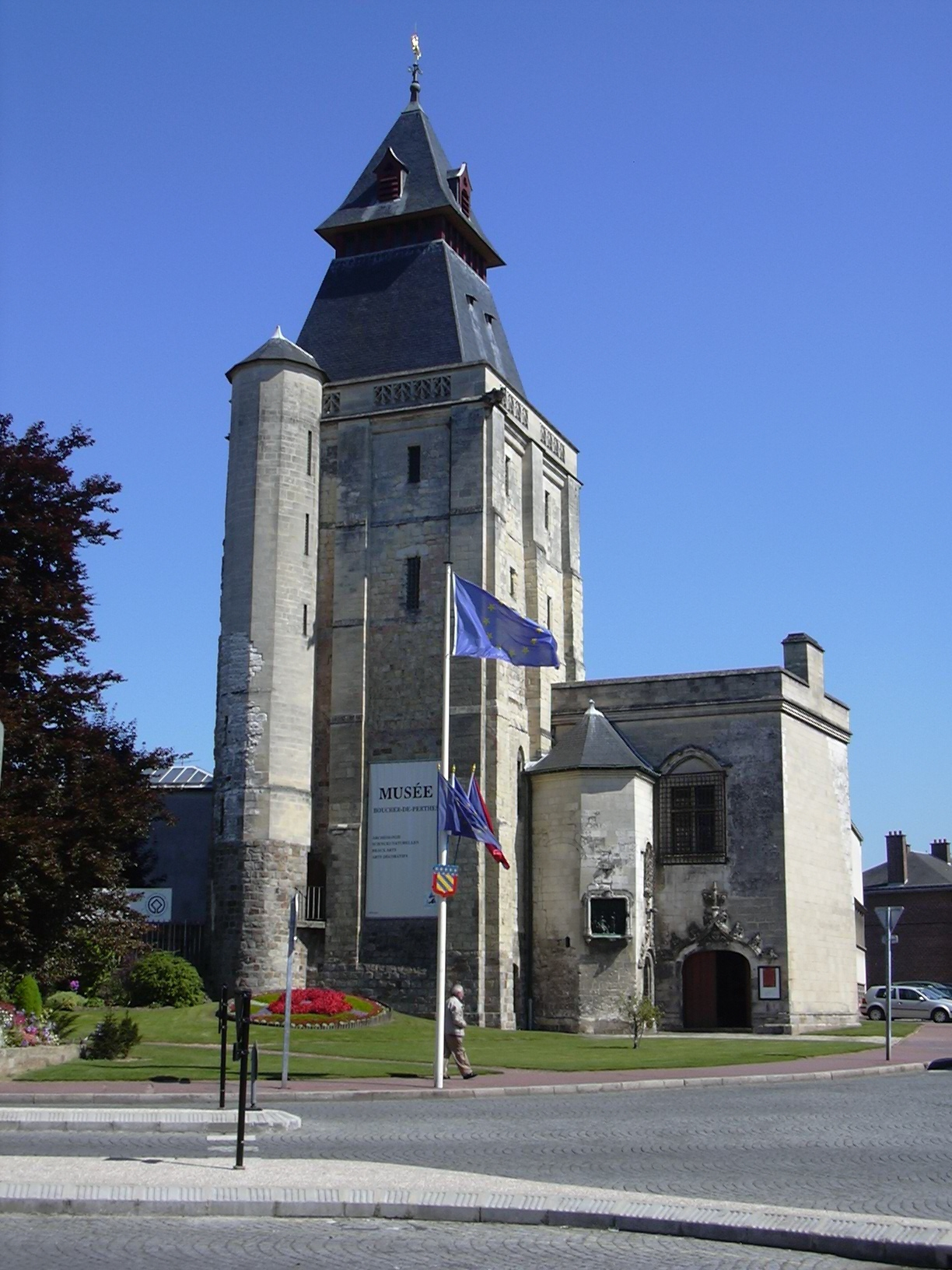 Beffroi d'Abbeville (France).